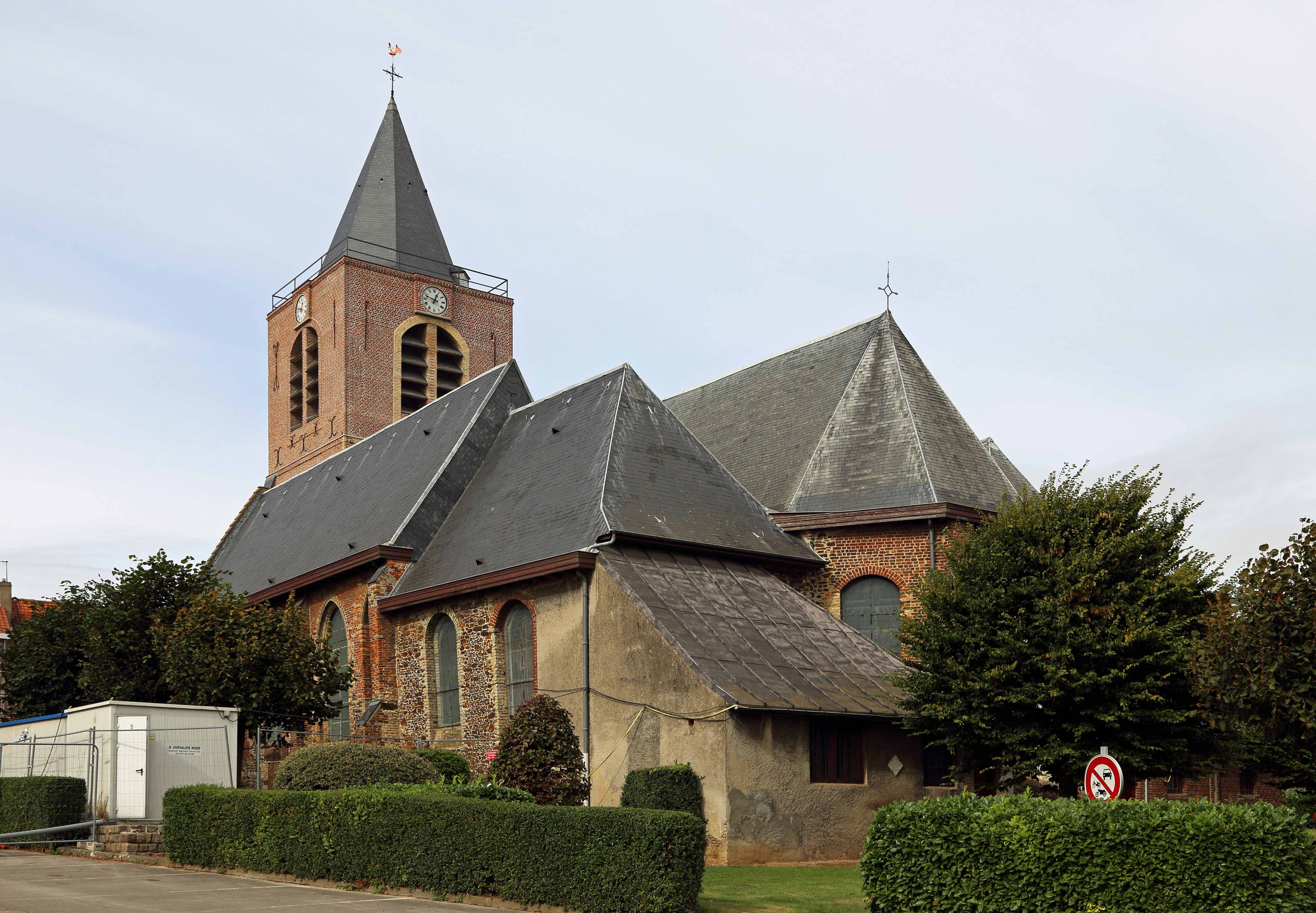 Boeschepe (département du Nord, France): St Martin's church